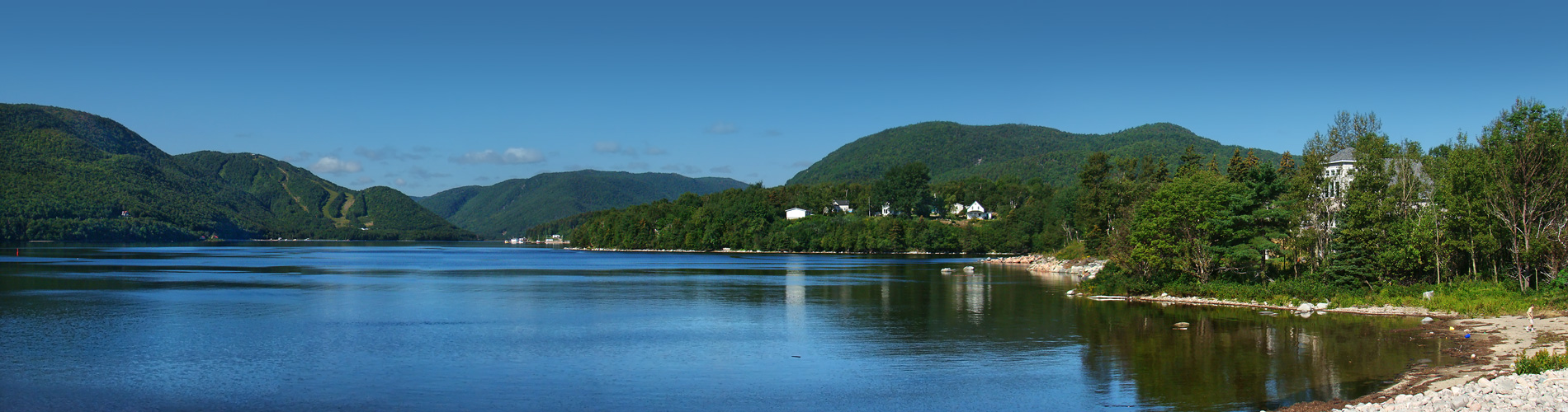 Ingonish Beach, Cape Breton Island, Nova Scotia, Canada.